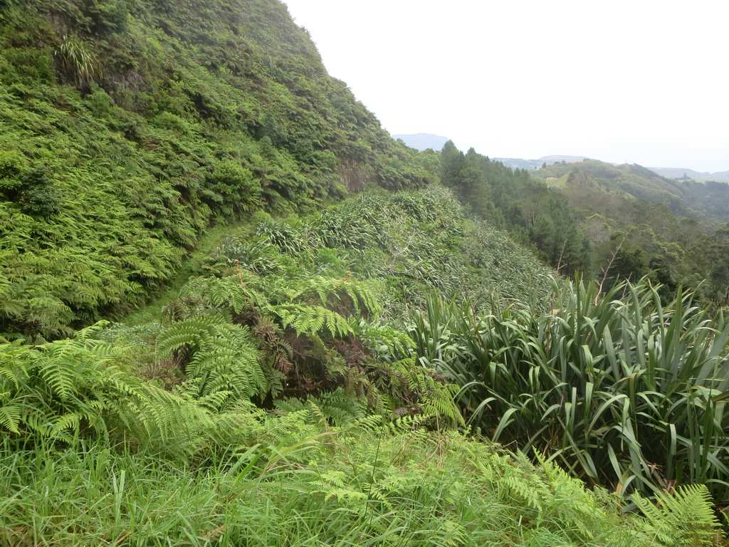 The trail through Diana's Peak National Park on St Helena Island is flanked by ferns and flax.